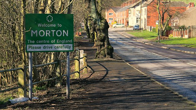 The Centre of England. Morton: the centre of England! This sign is by the side of 372532 on the eastern edge of the village. See also this photograph by Nikki Mahadevan 288662. Of course, Morton is just one of many claimants (including Meriden in the West Midlands) to this title and there is no indication as to the reasoning behind this claim. The BBC considers the centre to be in a paddock at Lindley Hall Farm: The Government Office for the East Midlands thinks Northamptonshire is near it: Leeds would like to place a claim too: So would Higham-on-the-Hill in Leicestershire: Then there's this group of five Anglican rural parishes: Arbor Low in Derbyshire wants in on the act: And also Leamington Spa, Warwickshire - see 27563 And then there is Church Flatts Farm, Coton in the Elms, also in Derbyshire, which would like to be thought of as the furthest place in England from the sea